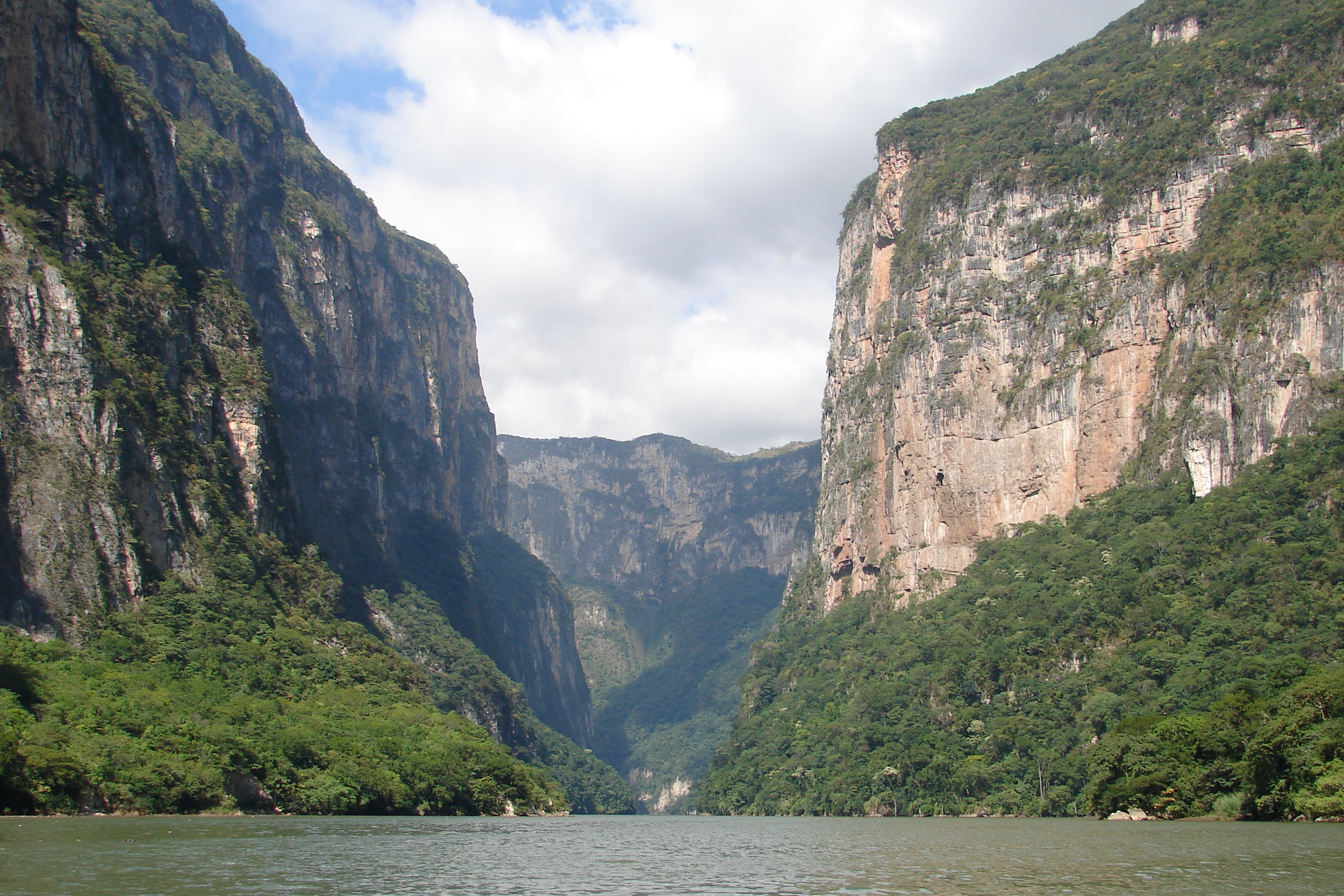 Grijalva River in Sumidero Canyon — in the state of Chiapas, Southwestern Mexico.